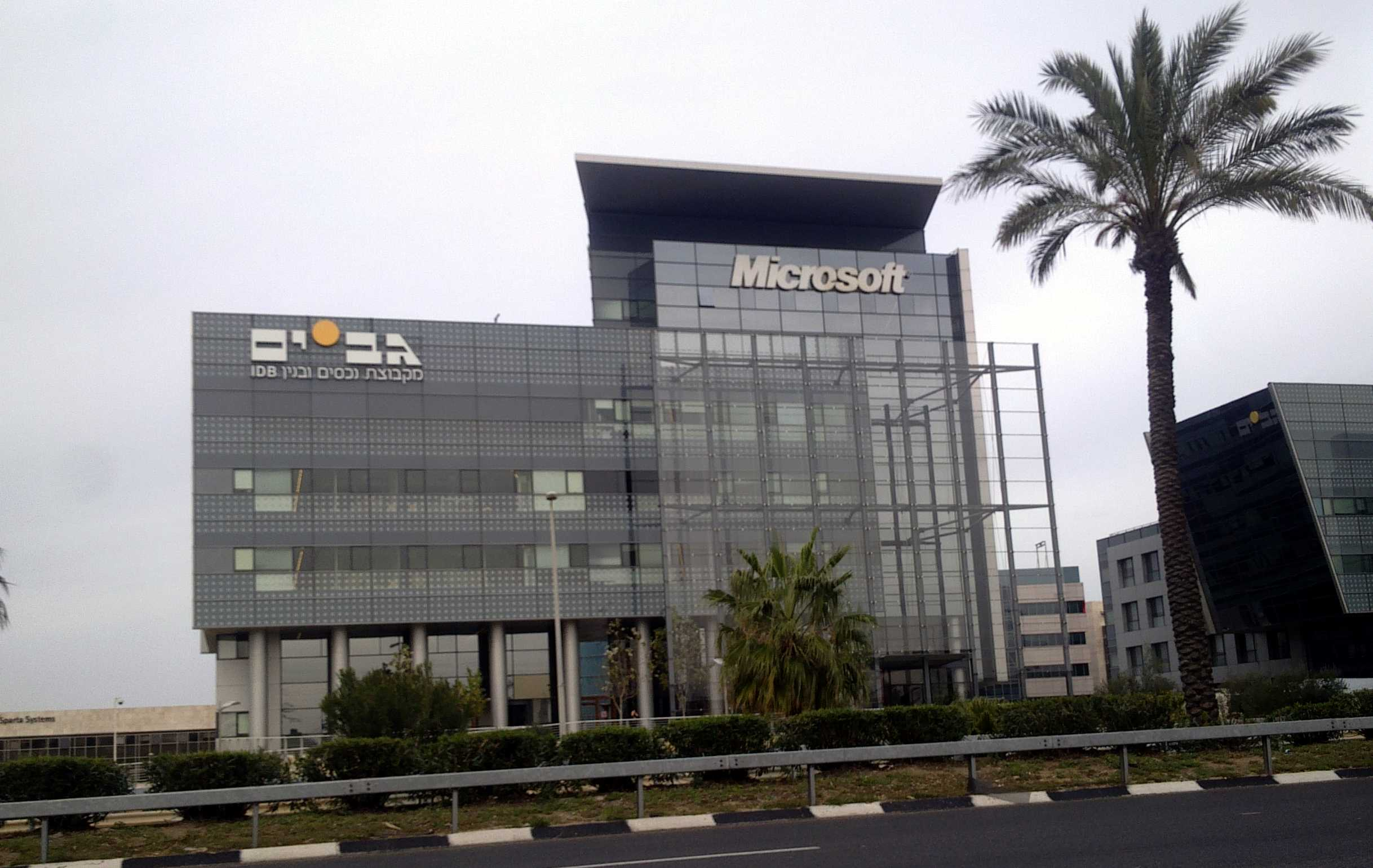 Microoft Israel building In Hertzliah industrial area